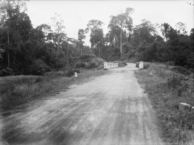 AWM caption : Gemencheh, Negri Sembilan, Malaya. 1945-09-25. The bridge (middle distance) over the Gemencheh River where, on the 1942-01-14 members of the 2/30th Australian Infantry Battalion supported by no. 30 battery, 2/15 Australian Field Regiment and the 4th Australian anti-tank regiment ambushed and killed some 600 Japanese soldiers (57 mile peg.)